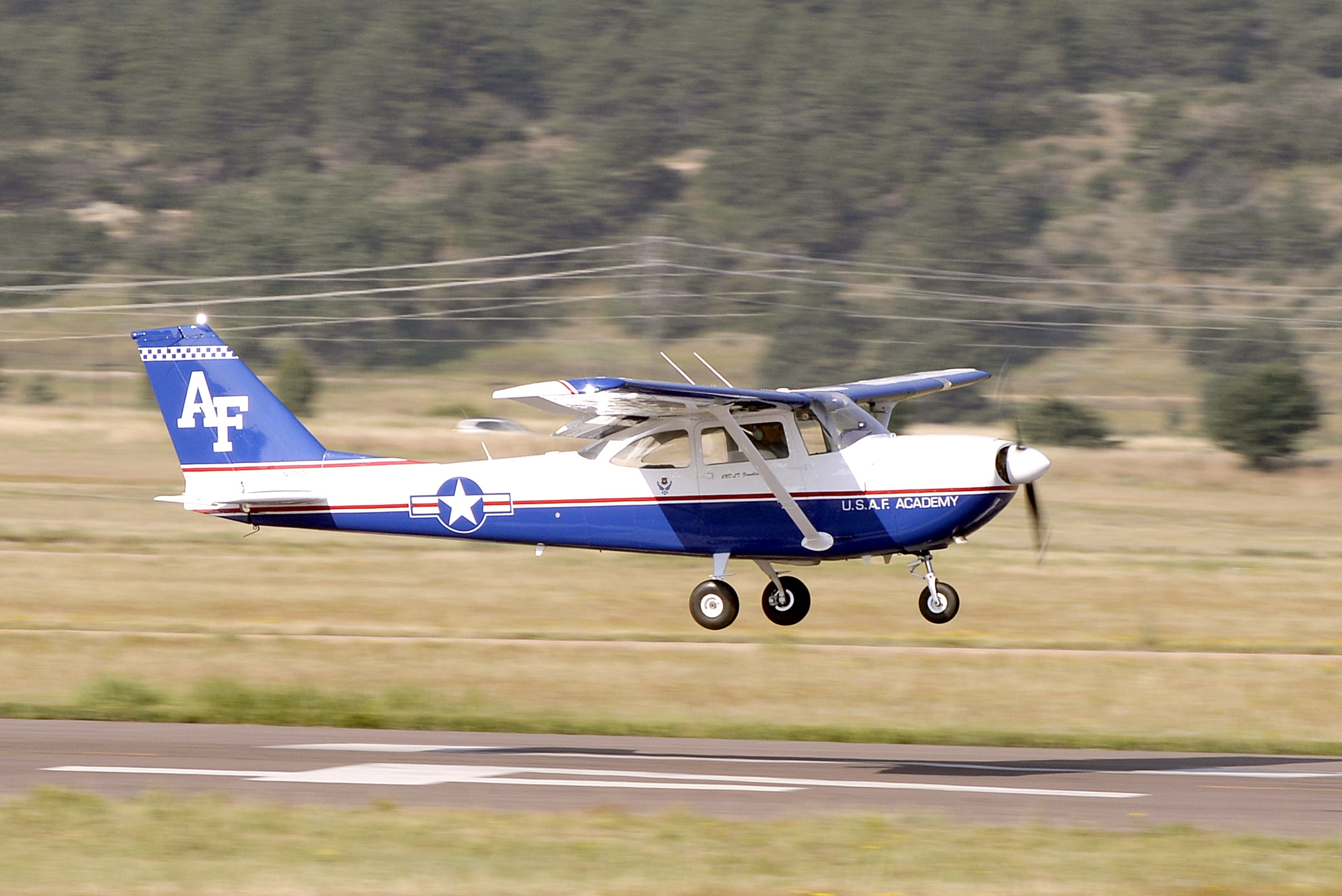 A USAF Academy T-41D. This aircraft is operated by the USAF Academy Flying Team as a part of the 557th Flying Training Squadron.